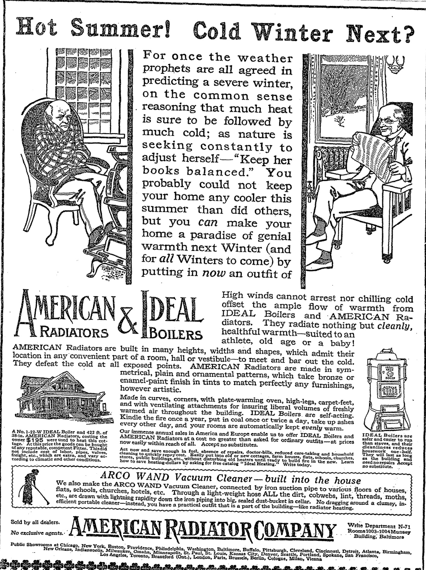 Advertisement for the American Radiator Company – Baltimore Sun, September 11th, 1913